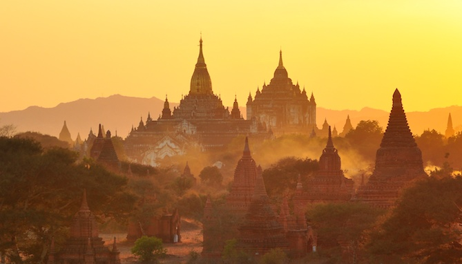 Well worth the view this evening